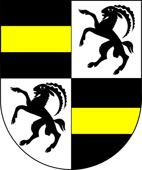 Coat of arms (shield only) of Konrad von Vechta, bishop of Olomouc, Czech Republic (1408 - 1413), archbishop of Prague (1413 - 1421).